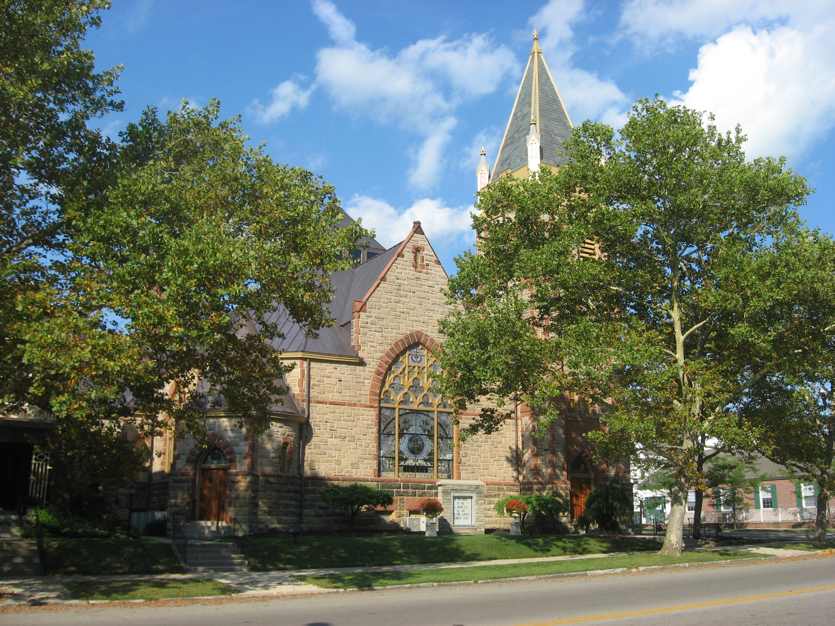 Front of the First United Methodist Church, located at 52 N. Main Street (State Route 56) in downtown London, Ohio, United States, across the street from the Madison County Courthouse. Built in 1894, it is listed on the National Register of Historic Places.